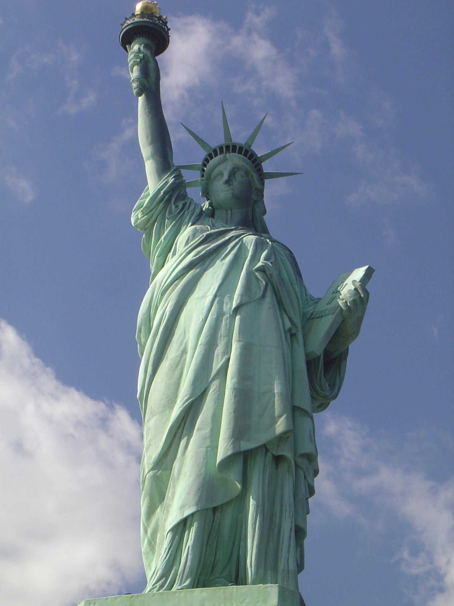 Statue of Liberty, New York, USA